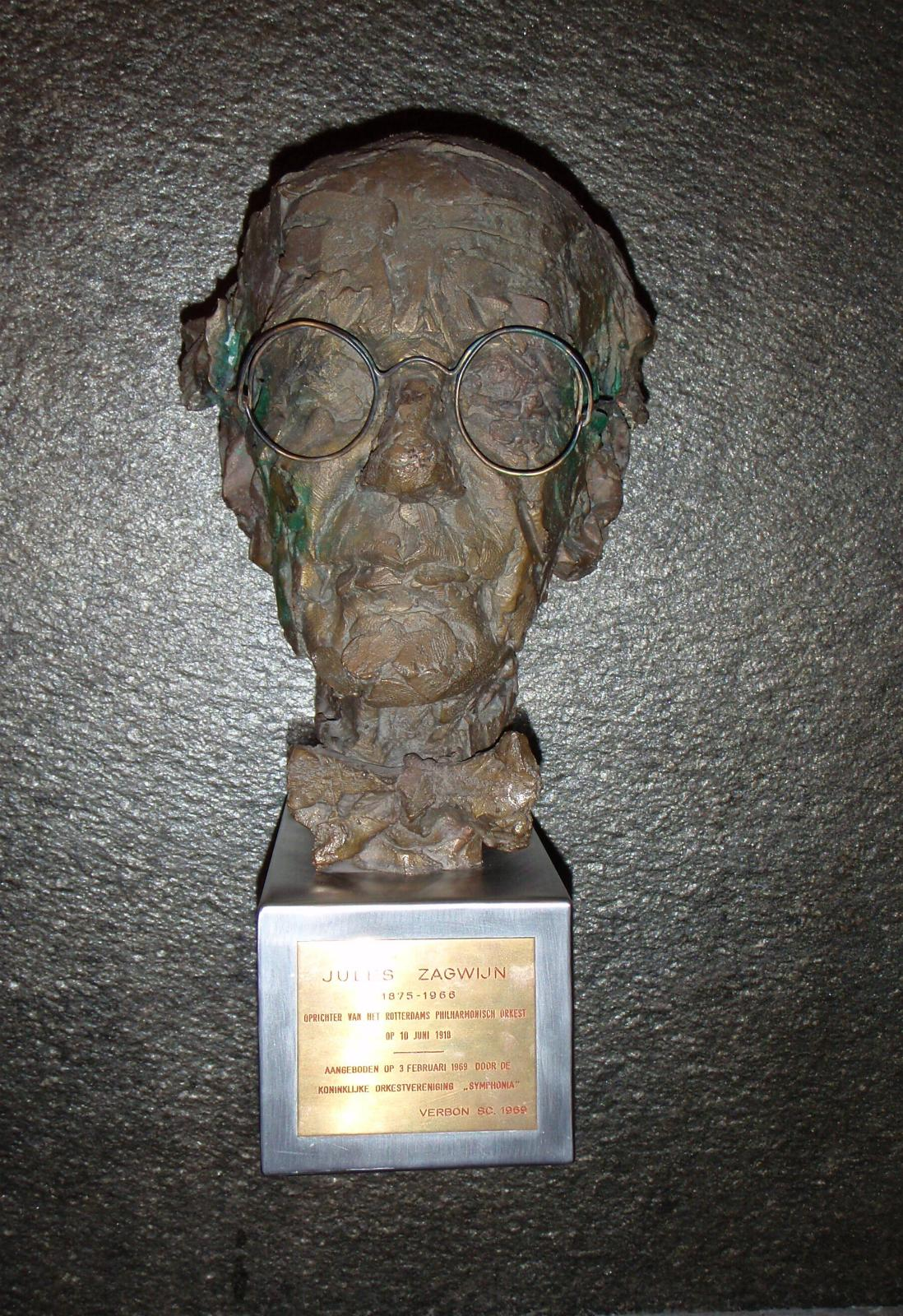 The bust of violinist Jules Zagwijn (1874-1966) in the concert hall 'de Doelen', Rotterdam.